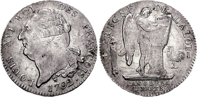 France. Louis XVI de France. 1774-1793. Augustin Dupré (1748–1833) Alternative names Augustin DupreDescriptionFrench engraverDate of birth/death 6 October 1748 30 January 1833Location of birth/death Saint-Étienne Armentières-en-BrieAuthority control : Q767735 VIAF: 24775347 ISNI: 0000 0000 6653 9499 ULAN: 500014612 LCCN: no90013751 GND: 122203194 WorldCat creator QS:P170,Q767735 AR Écu constitutionnel (29.25 g, 6h). Limoges mint. Dated 1792. Bare head left Winged genius of France inscribing CONSTI / TUTION in two lines on tablet set on column, fasces to left, rooster to right. VG 55; Duplessy 1718; Ciani 2238. Good VF, lightly toned.